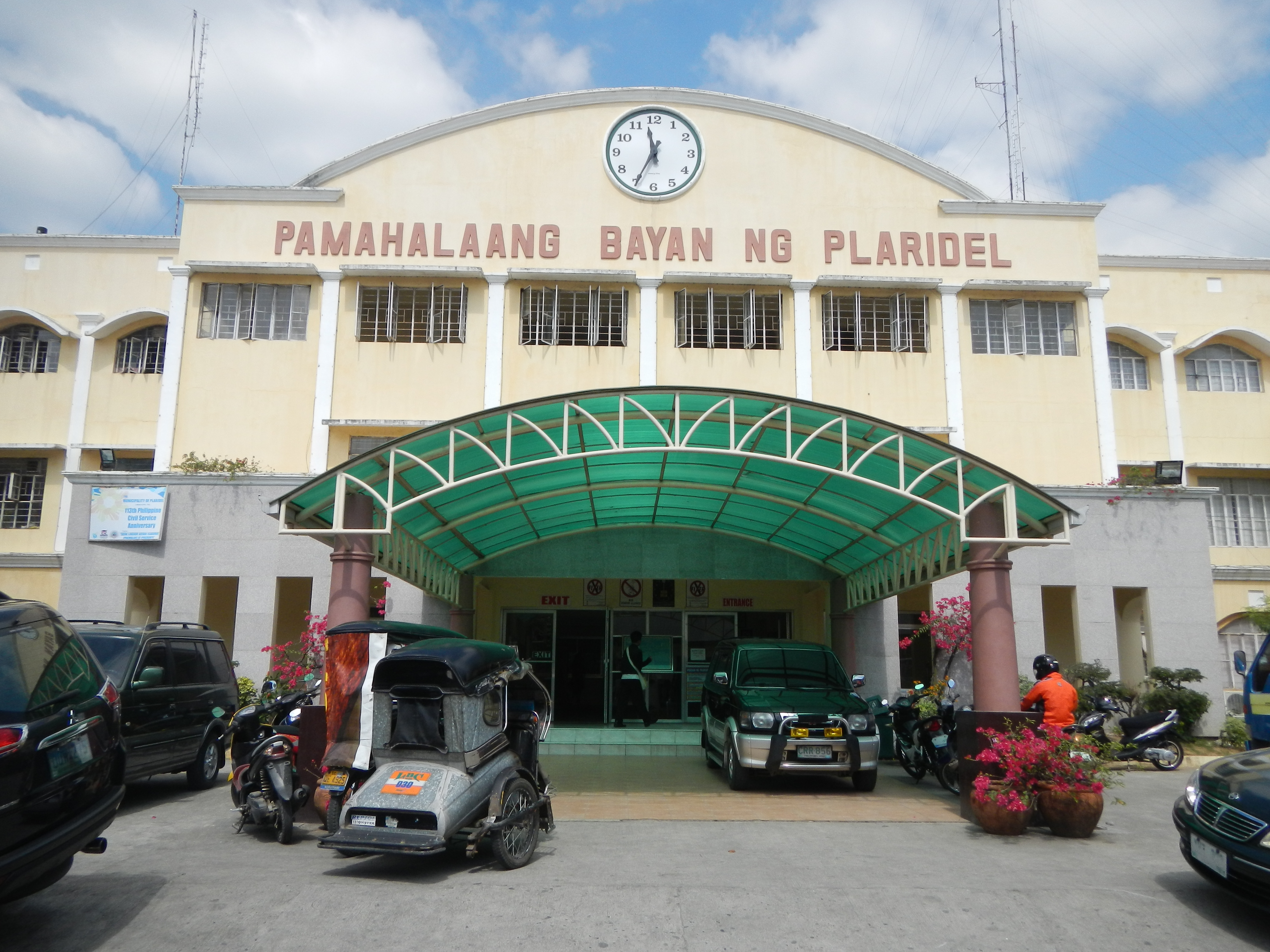 Upload Wizard photos (general description of the landmarkds, angle by angle photography of the town, rivers, bridges and interesting points) of the Plaridel, Bulacan [1] -- Town Proper, downtown, Centro, Plaridel, Bulacan KM 42, Plaridel Town Hall Complex Compound, and Offices in front of the Church and part of it is the San Diego Gymnasium Covered Basketball Court.